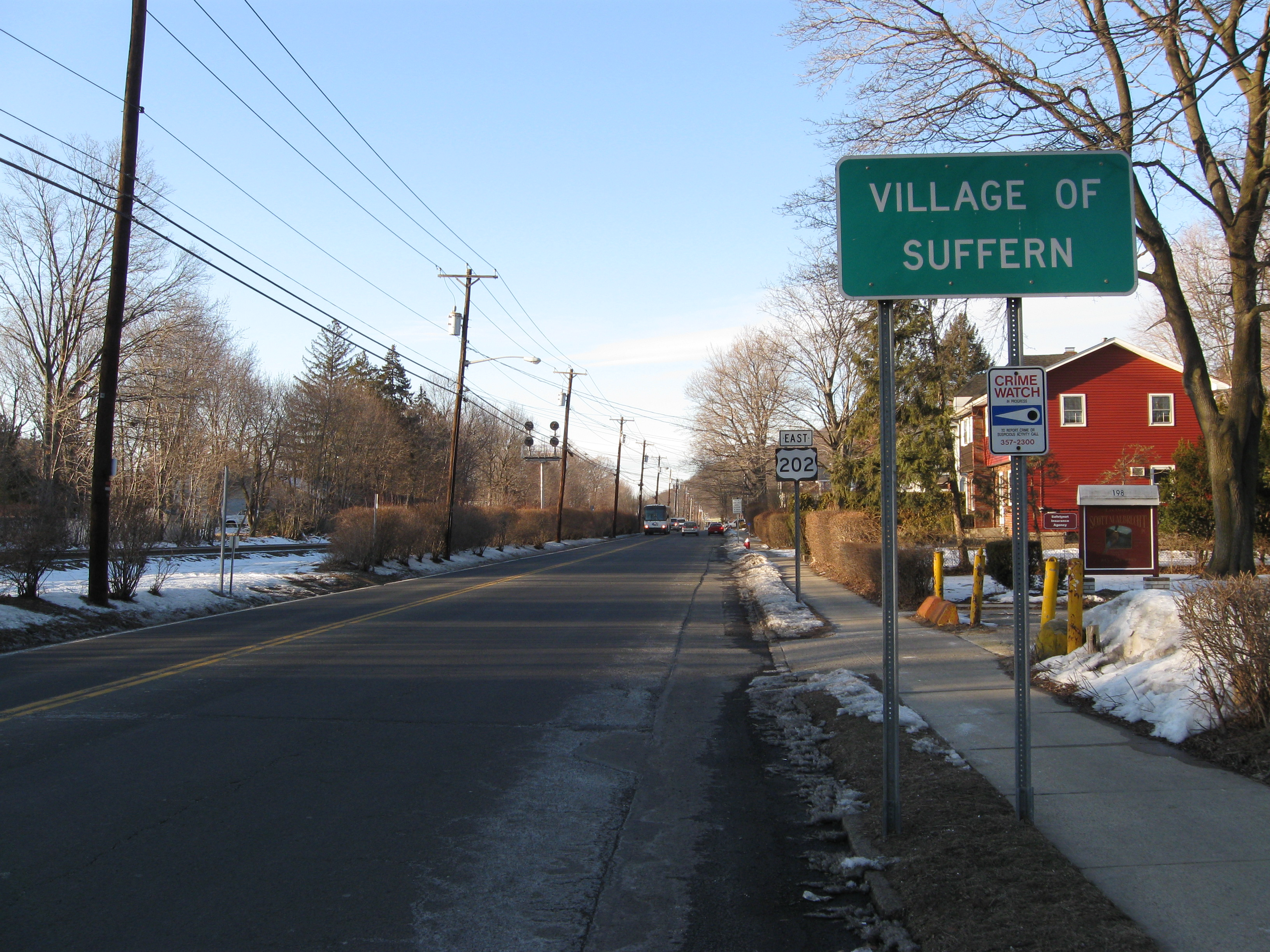 US 202's first reassurance shield after entering the Village of Suffern at the New Jersey-New York state line. Note the New Jersey Transit Main Line on the left side of the road, which was once also the Main Line of the Erie Railroad.